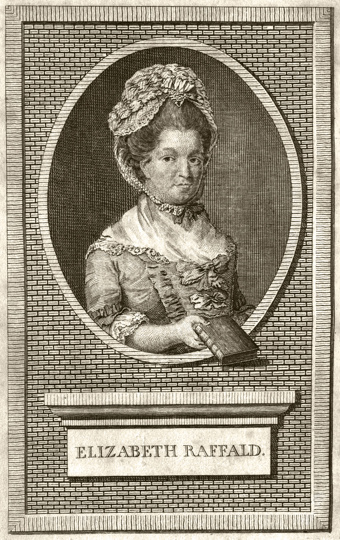 Elizabeth Raffald (1733-1781). From the 1782 edition of The Experienced English Housekeeper published by Baldwin